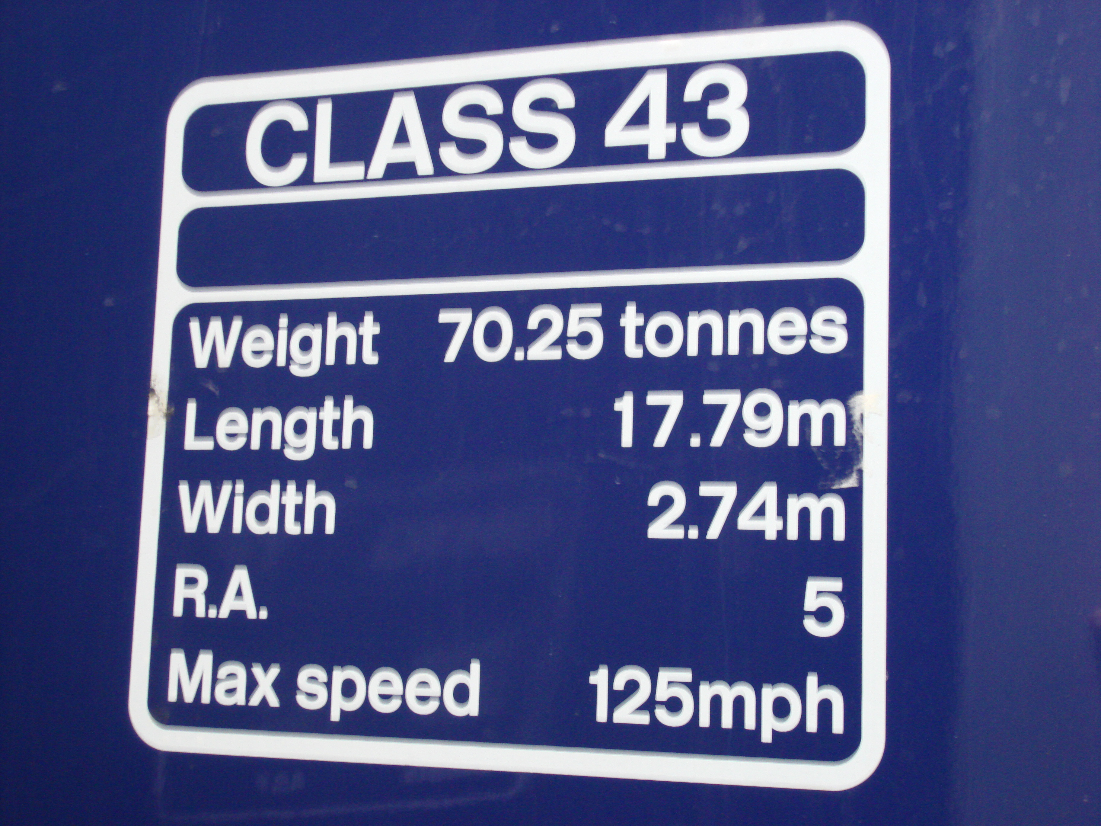 Infobox from number 43185